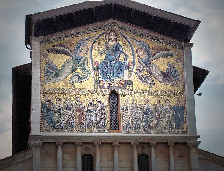 13th century byzantinesque mosaic by Berlinghiero Berlinghieri representing "The Ascension of Christ the Saviour with the apostles below" on the facade of the basilica San Frediano; Lucca, Italy Own photo - photo made by Georges Jansoone on 10 October 2005